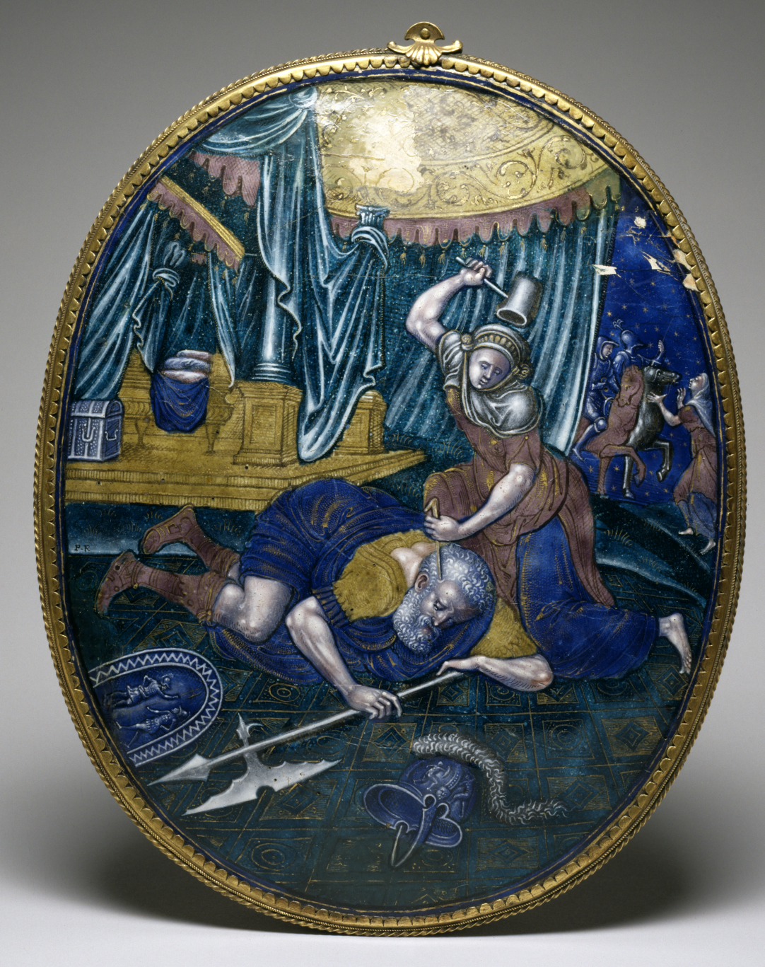 The Old Testament Book of Judges recounts that Sisera, commander of the Canaanite army, fled when his army was routed during battle with the Israelites. The woman Jael lured Sisera into her tent by offering him shelter but then killed him by driving a tent peg into his temple while he slept. By killing Sisera, Jael rescued the Israelites from years of oppression by the Canaanite king Jabin. The plaque is from a series, including the companion plaque, Solomon Turning to Idolatry (Walters 44.197).